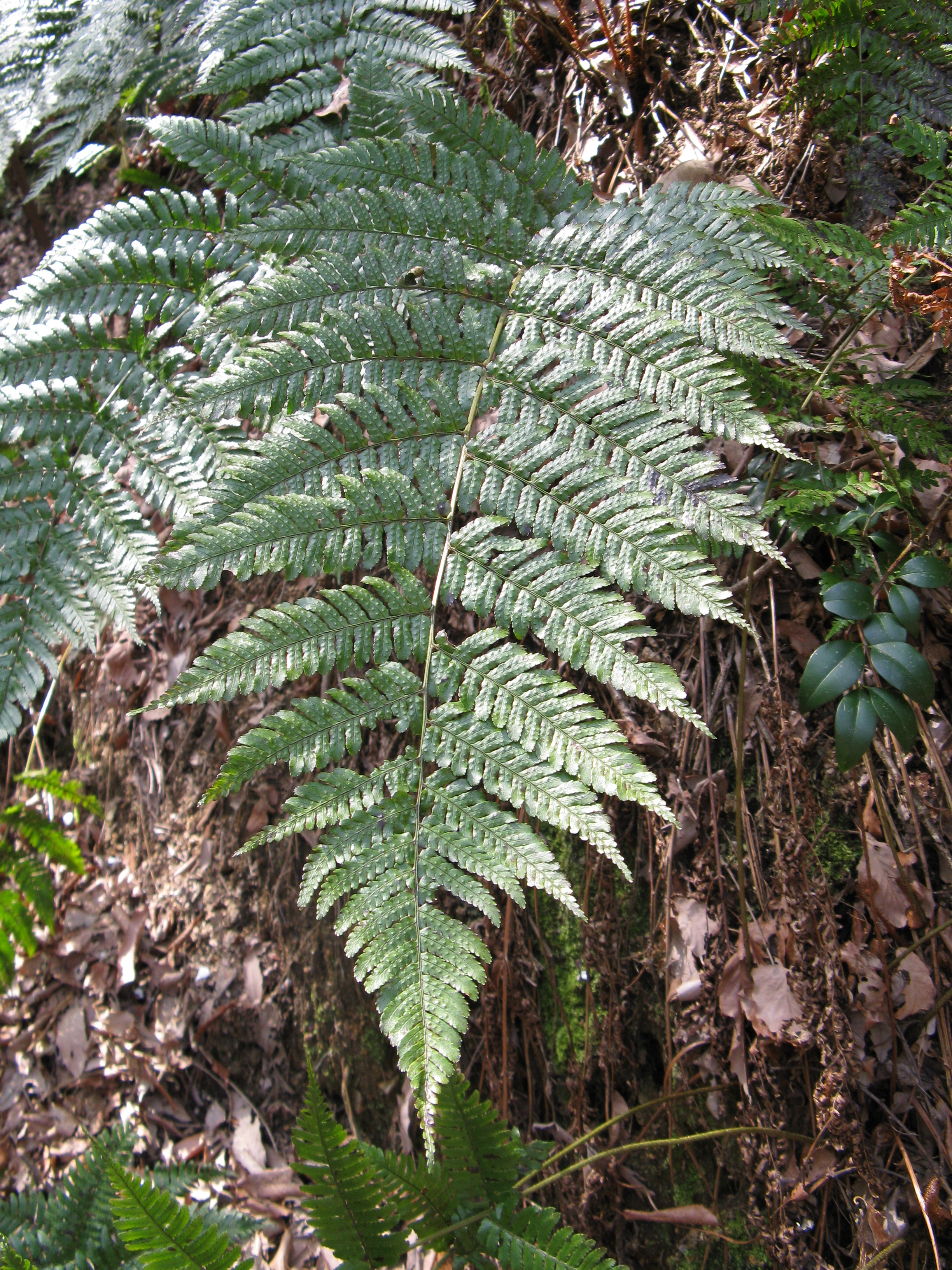 Scientific name Dryopteris erythrosora